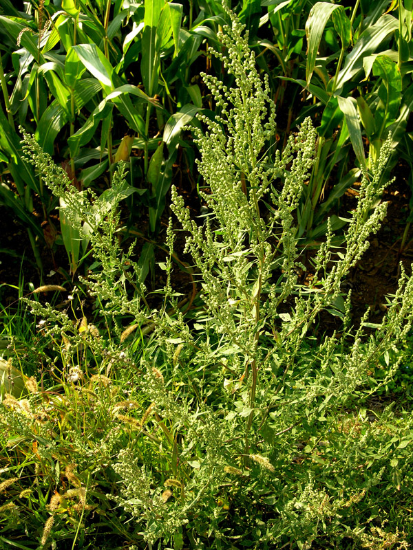 Atriplex patula growing near the corn field